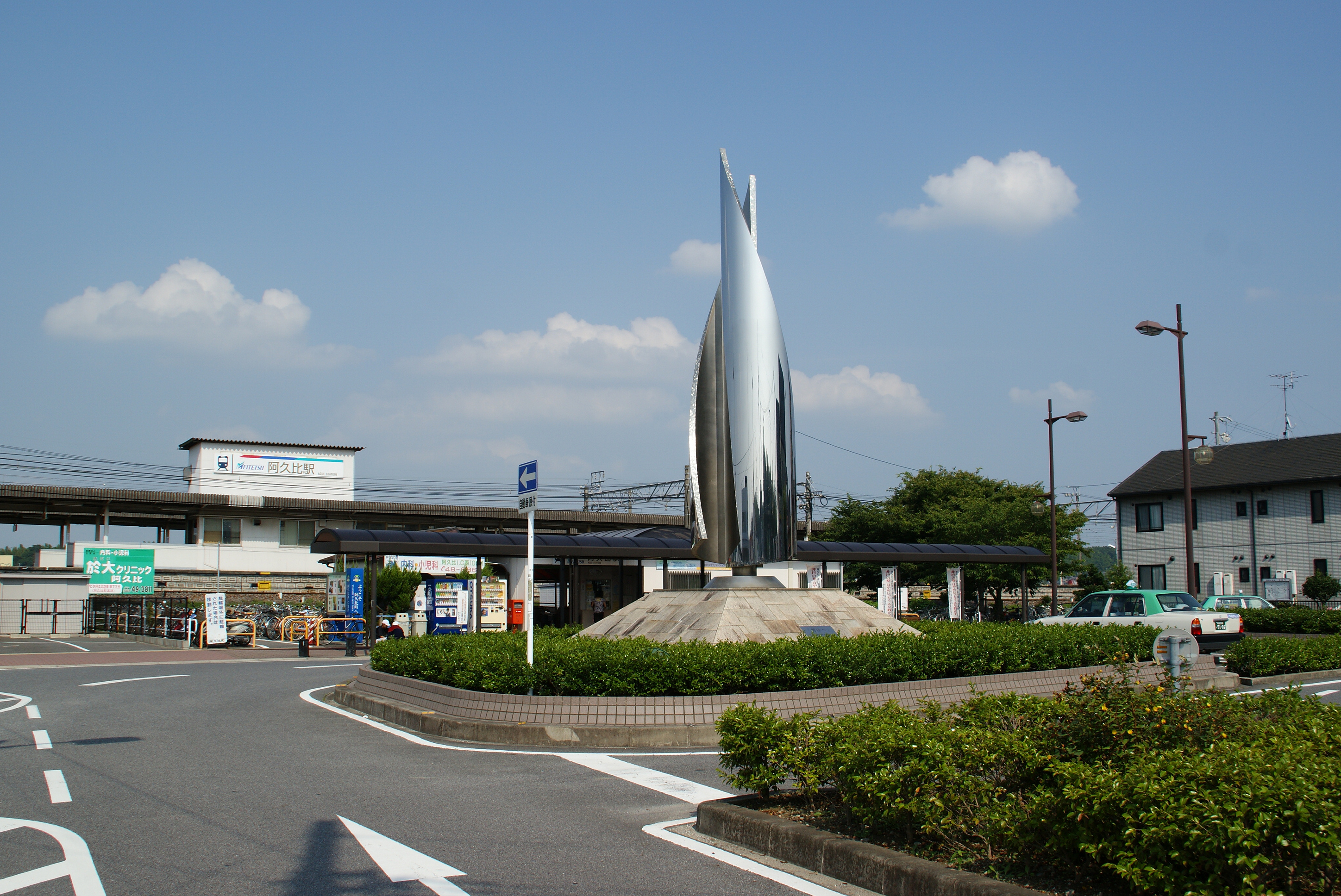 Nagoya Railroad, Agui Station.(Agui Town, Aichi Prefecture, Japan)